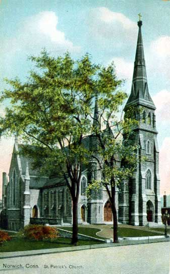 St. Patrick's Church, Norwich, Conn.